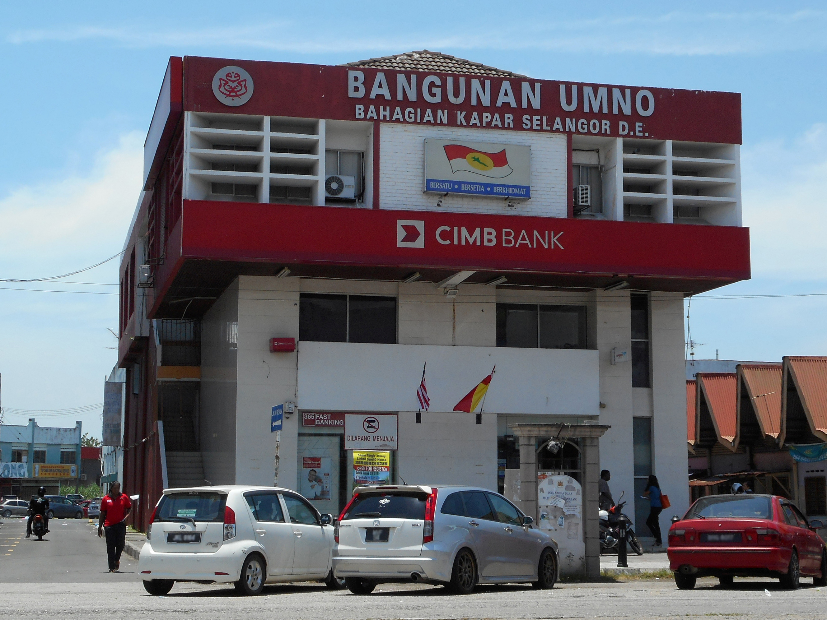 UMNO Kapar, Kapar, Klang, Selangor, Malaysia